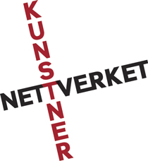 The logo of the Norwegian network of professional artists' organisations. Founded 2011